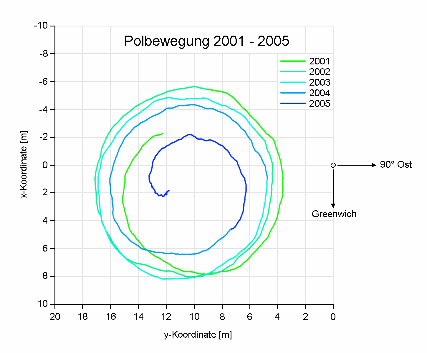 Path traced out on the surface of the Earth by its instantaneous rotation axis from 2001 through 2005.